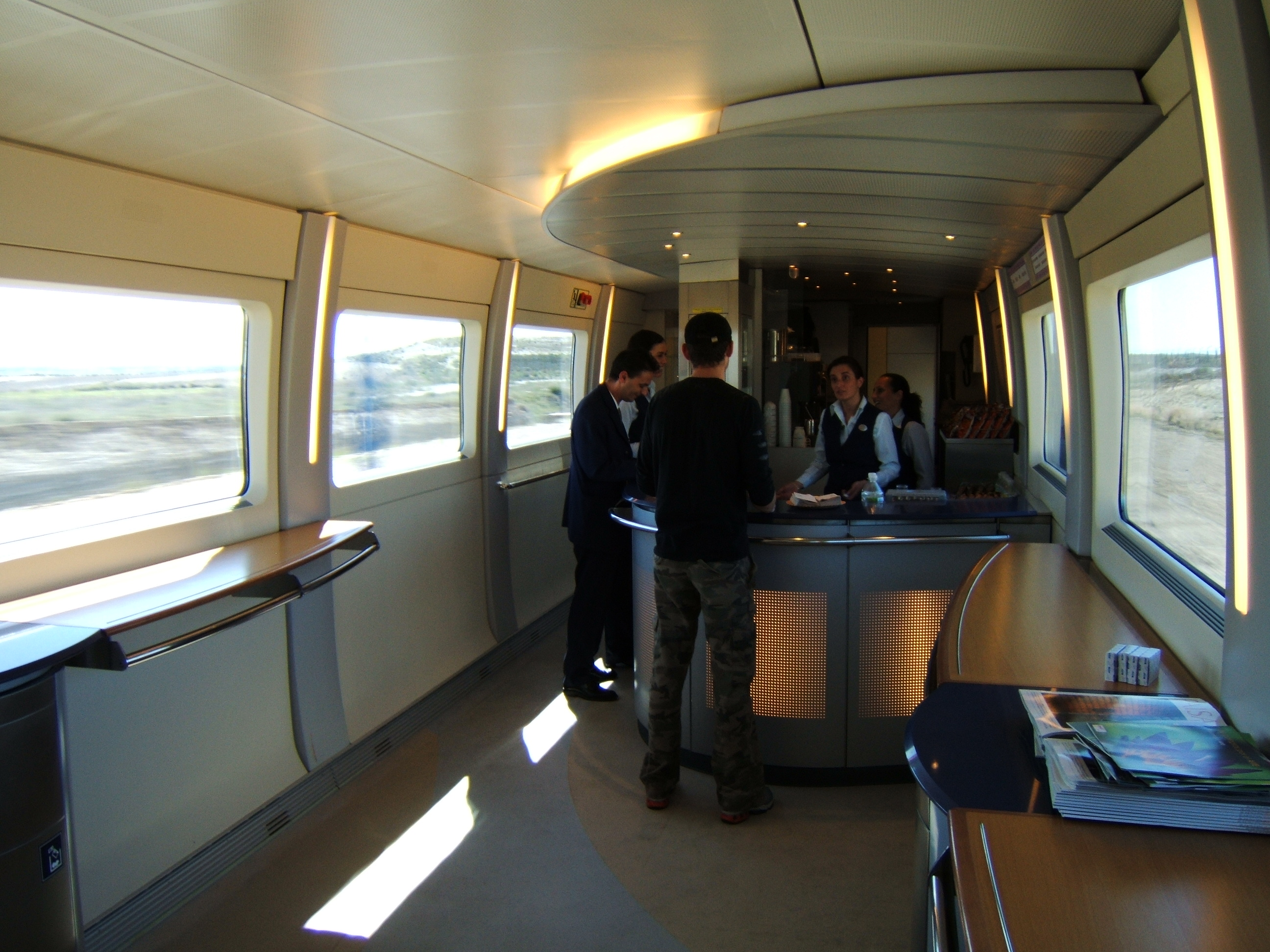 Bar of the RENFE Class 102 high-speed train.